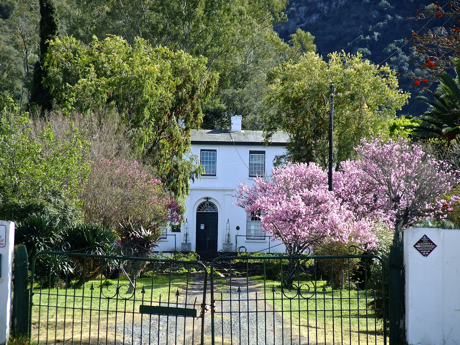 Somerset East Museum, Somerset East This media shows a South African Protected Site with SAHRA file reference 9/2/082/0005.